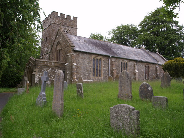 St Michael and All Angels' parish church, Wembworthy, Devon, seen from the south